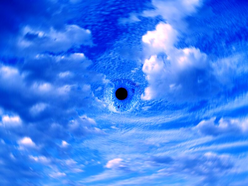 "Eye in the Sky". Collage of iris and sky.